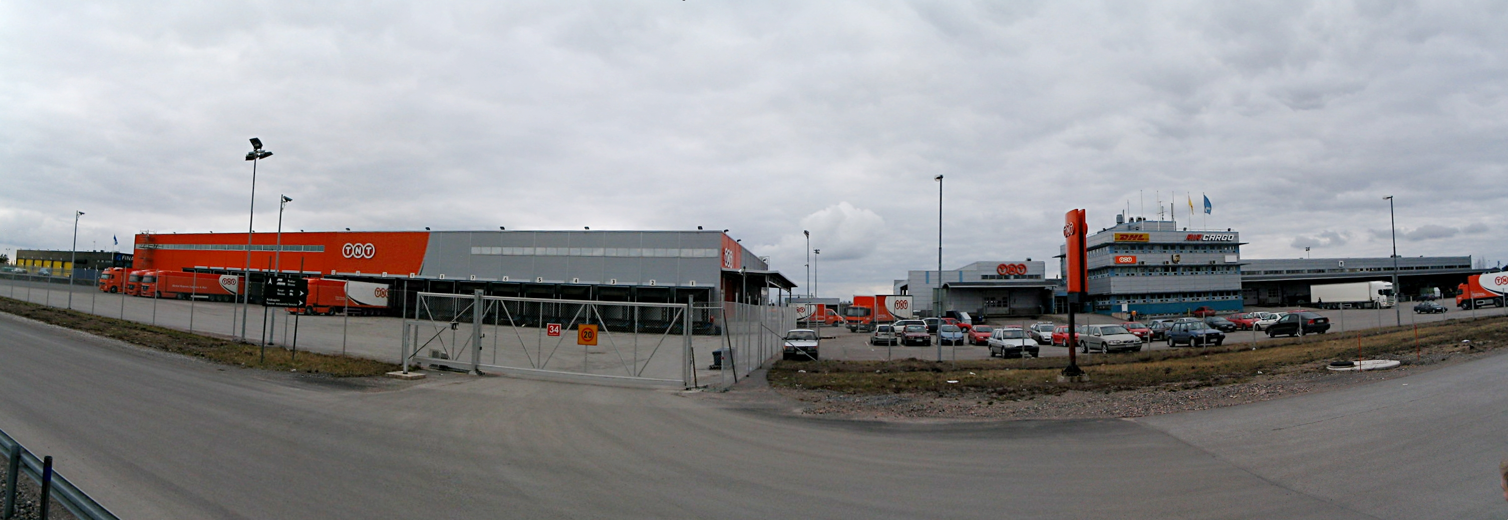 Air–road logistic terminals at Turku Airport (TKU/EFTU) in Turku, Finland